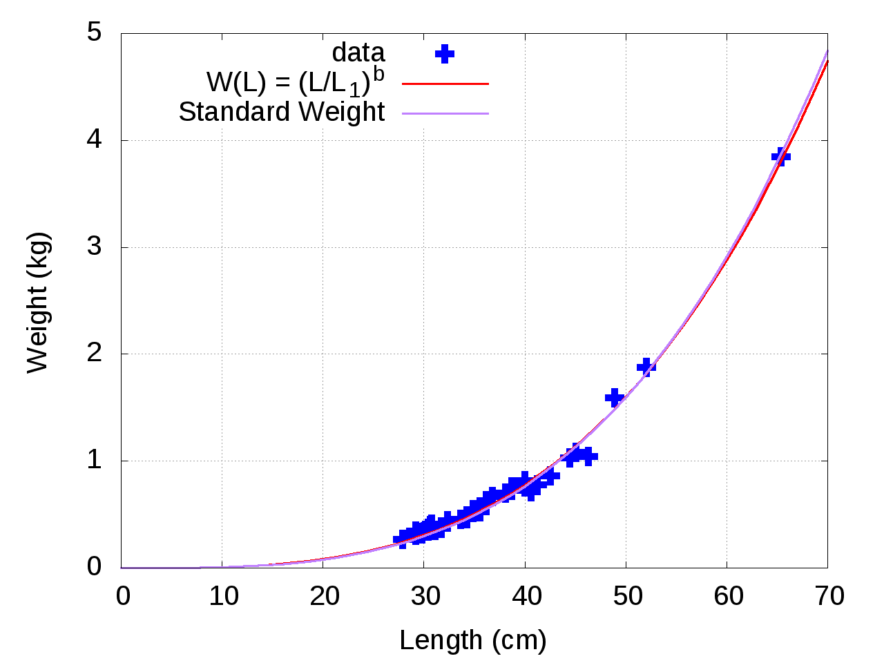 Weight vs. Length curve for channel catfish.